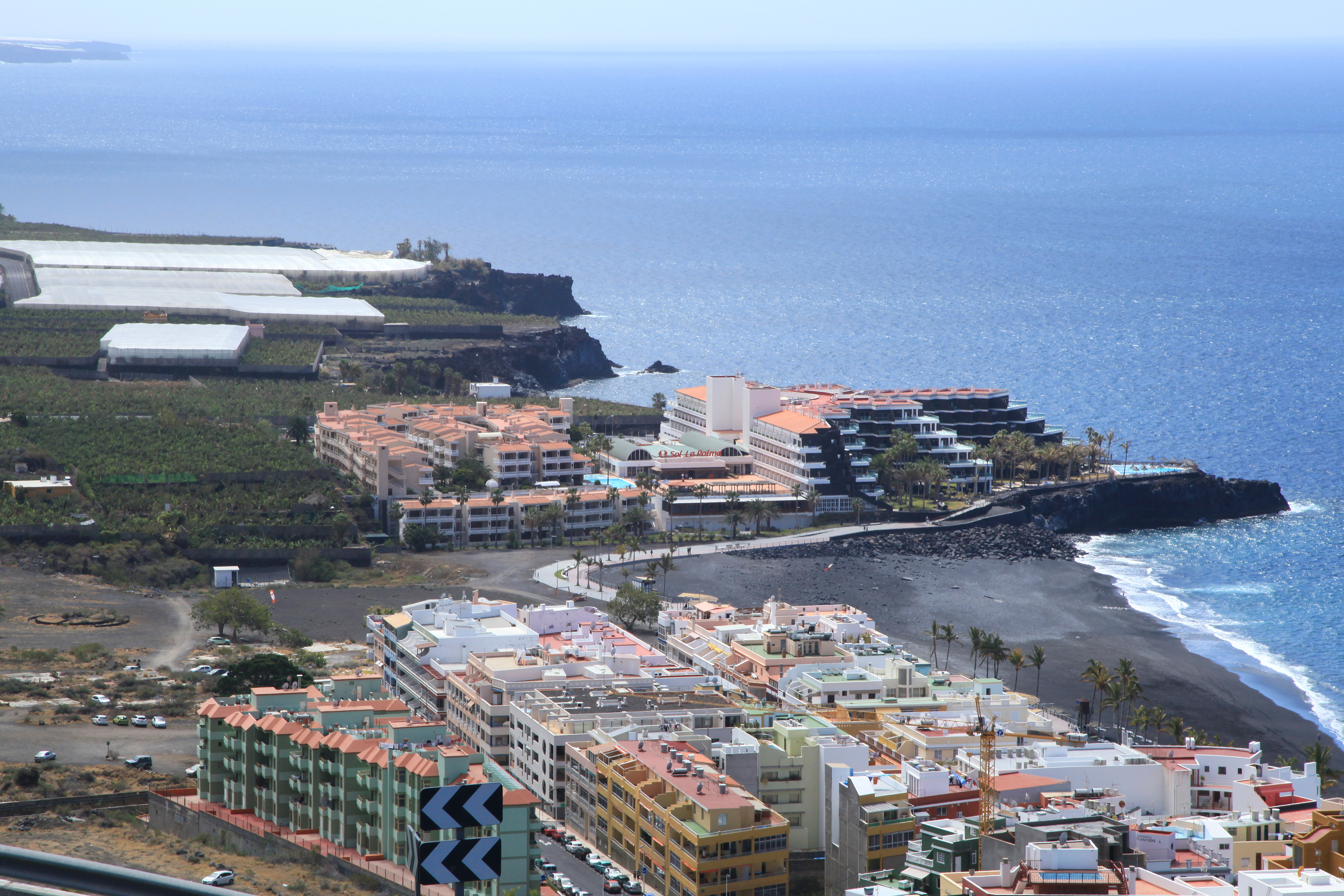 View from Mirador de Puerto Naos down to Puerto Naos and hotel Sol La Palma, Los Llanos de Aridane, La Palma, Canary Island, Spain